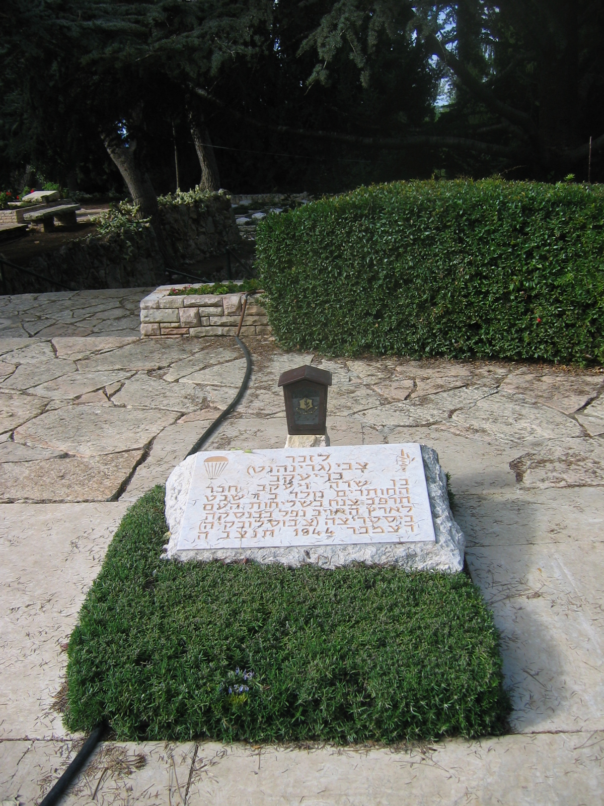 Grave of Zvi Ben-Yaakov, one of the Jewish paratroopers from Palestine whose mission was to aid the Jews in Czechoslovakia, where they were caught by the Nazis and executed.